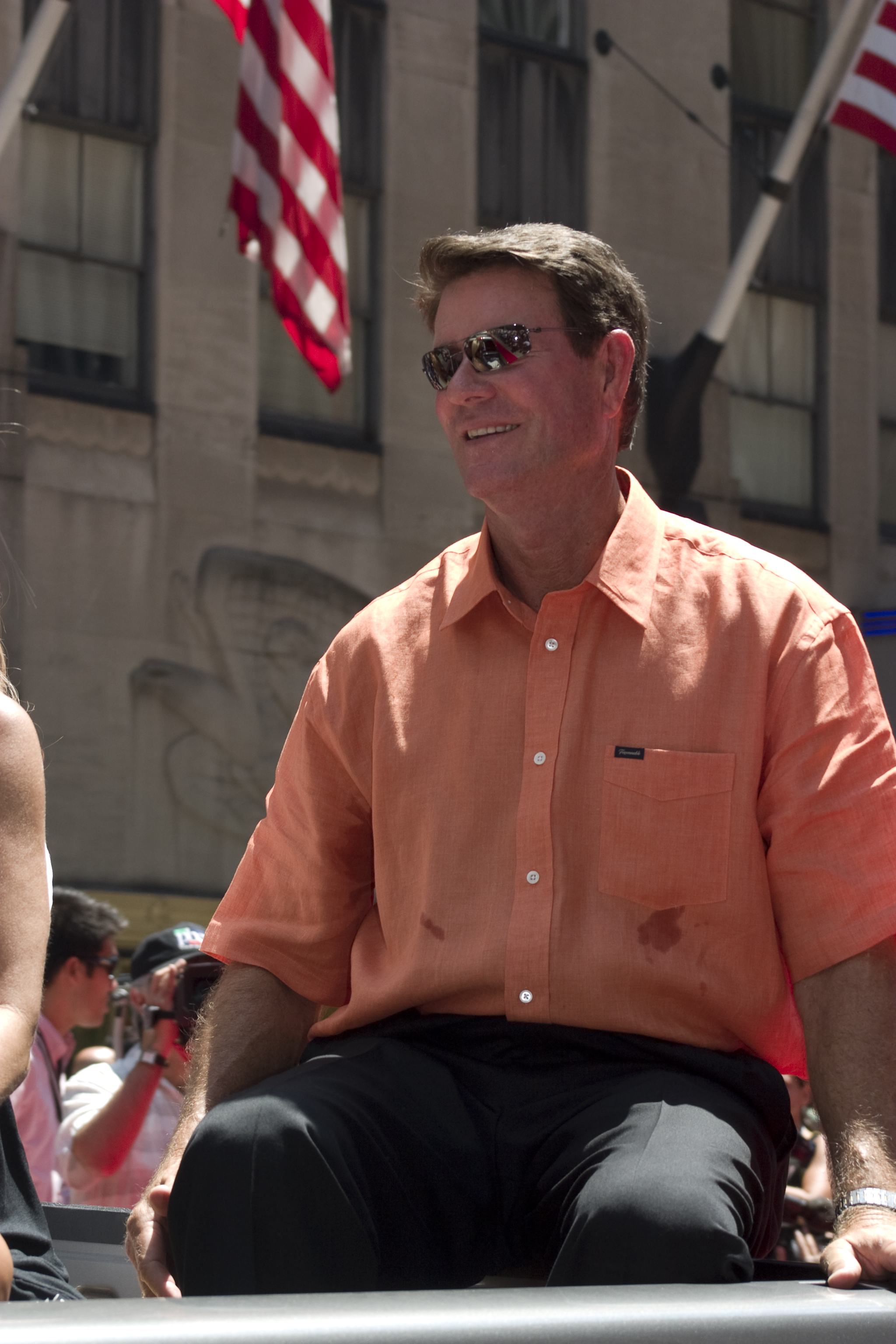 Hall of Fame baseball player Jim Palmer at the 2008 All-Star Game Red Carpet Parade. © Rubenstein, photographer Martyna Borkowski